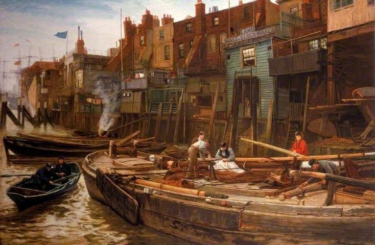 (c) South Shields Museum and Art Gallery; Supplied by The Public Catalogue Foundation